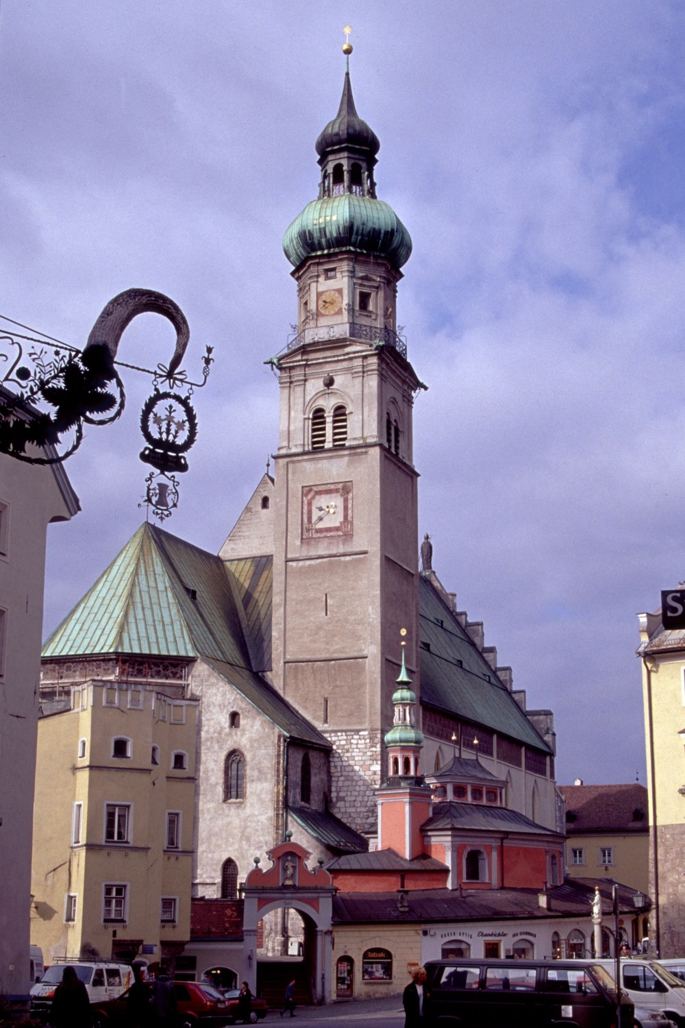 St. Nikolaus church in the historic center of Hall in Tirol